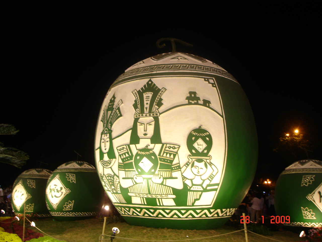 Đường hoa Nguyễn Huệ Tết Kỷ Sửu 2009.